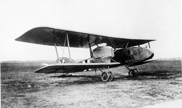 PictionID:43639488 - Catalog:16_004676 - Title:Albatros G III Nowarra photo - Filename:16_004676.TIF - - - - - - - Image from the Ray Wagner Collection. Ray Wagner was Archivist at the San Diego Air and Space Museum for several years and is an author of several books on aviation --- ---Please Tag these images so that the information can be permanently stored with the digital file.---Repository: San Diego Air and Space Museum